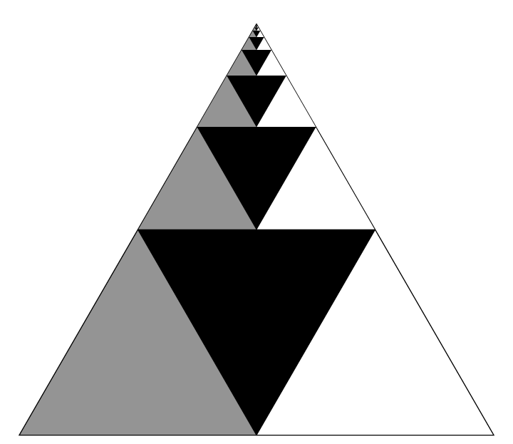 File:Geometric series triangle.svg is a vector version of this file. It should be used in place of this raster image when not inferior. File:Geometric series 14 triangle.png File:Geometric series triangle.svg For more information about vector graphics, read about Commons transition to SVG. There is also information about MediaWiki's support of SVG images.